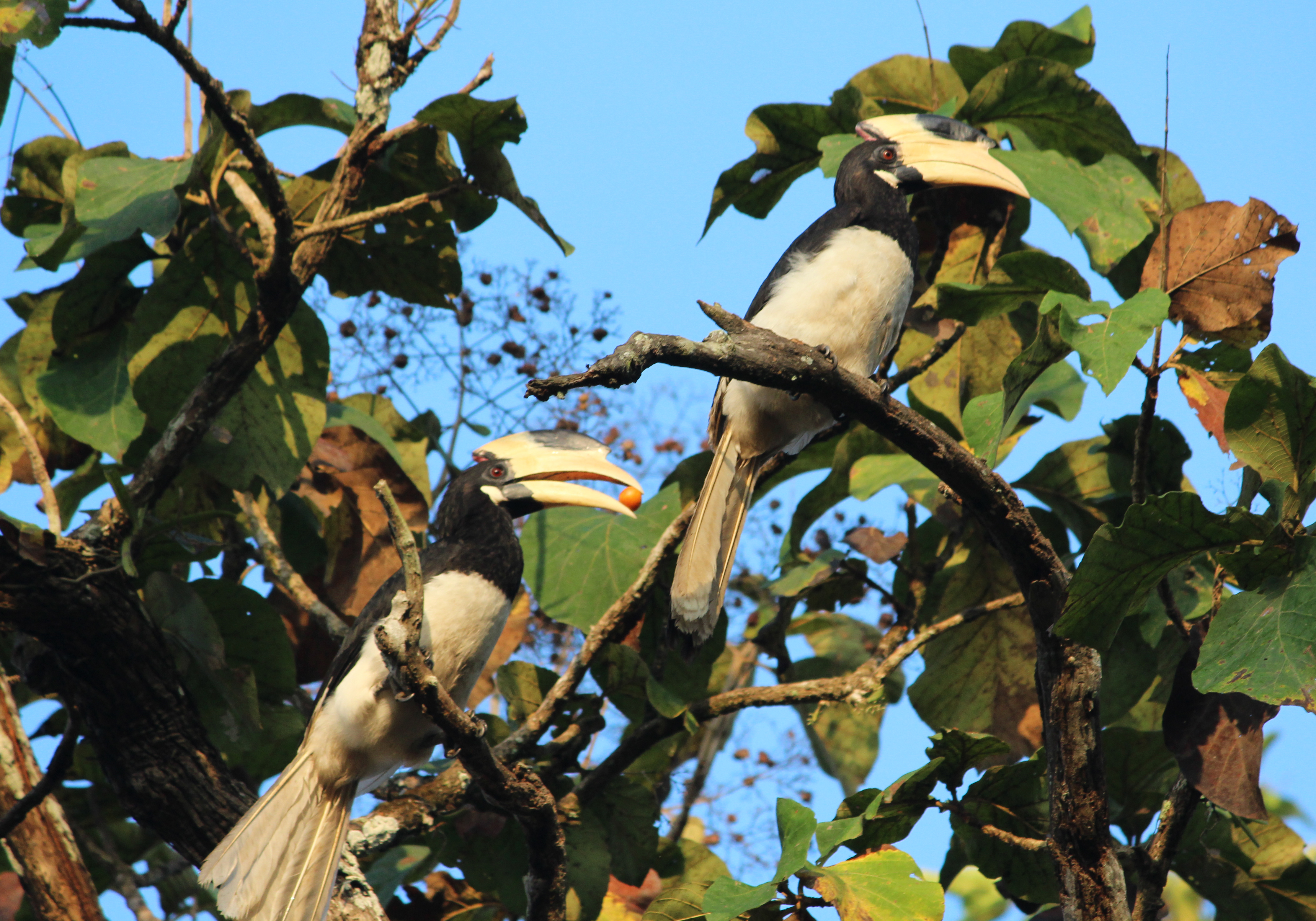 Two great Hornbill at Dandeli